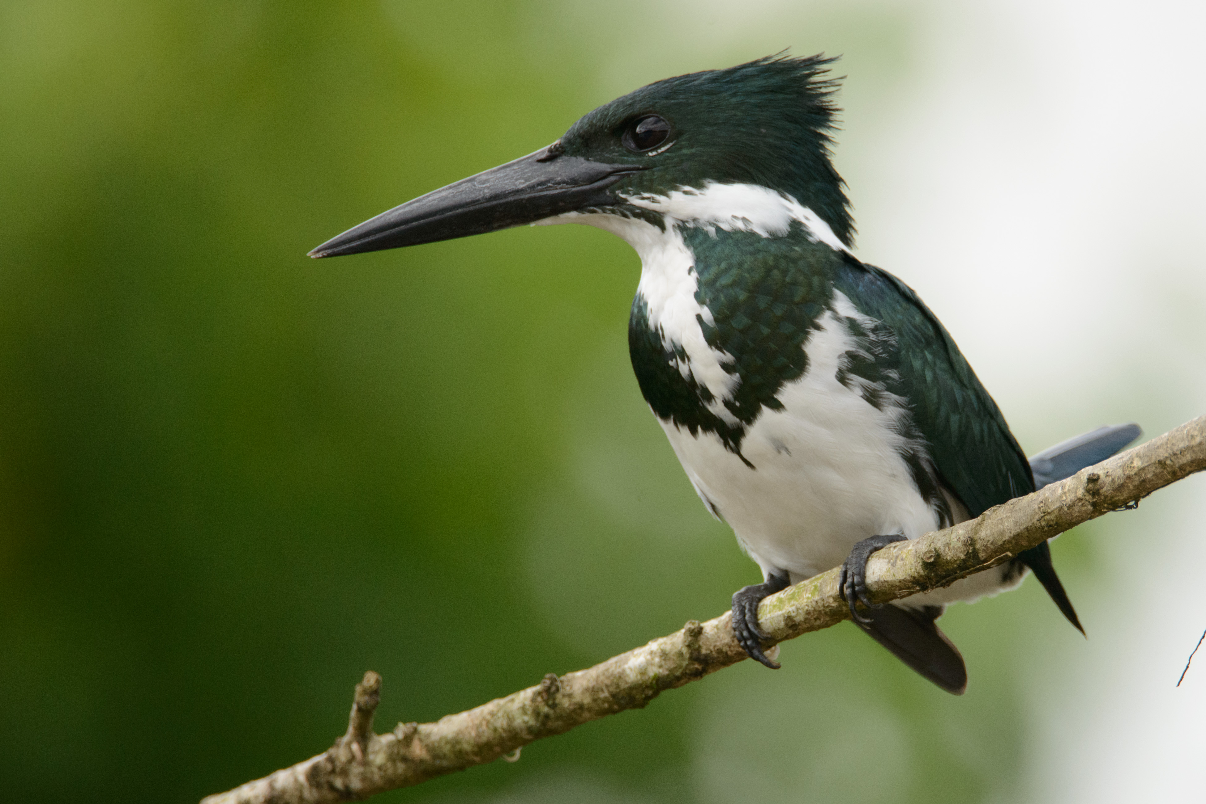 female Amazon Kingfisher